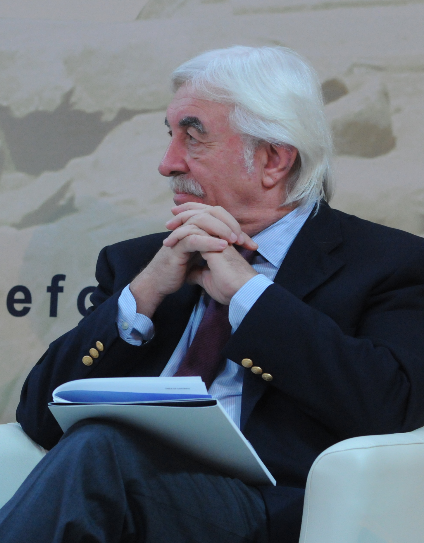 Cengiz Çandar at the 2012 Halifax International Security Forum. (Note: EXIF date is incorrect, [1] shows this event took place on 17 November 2012.)